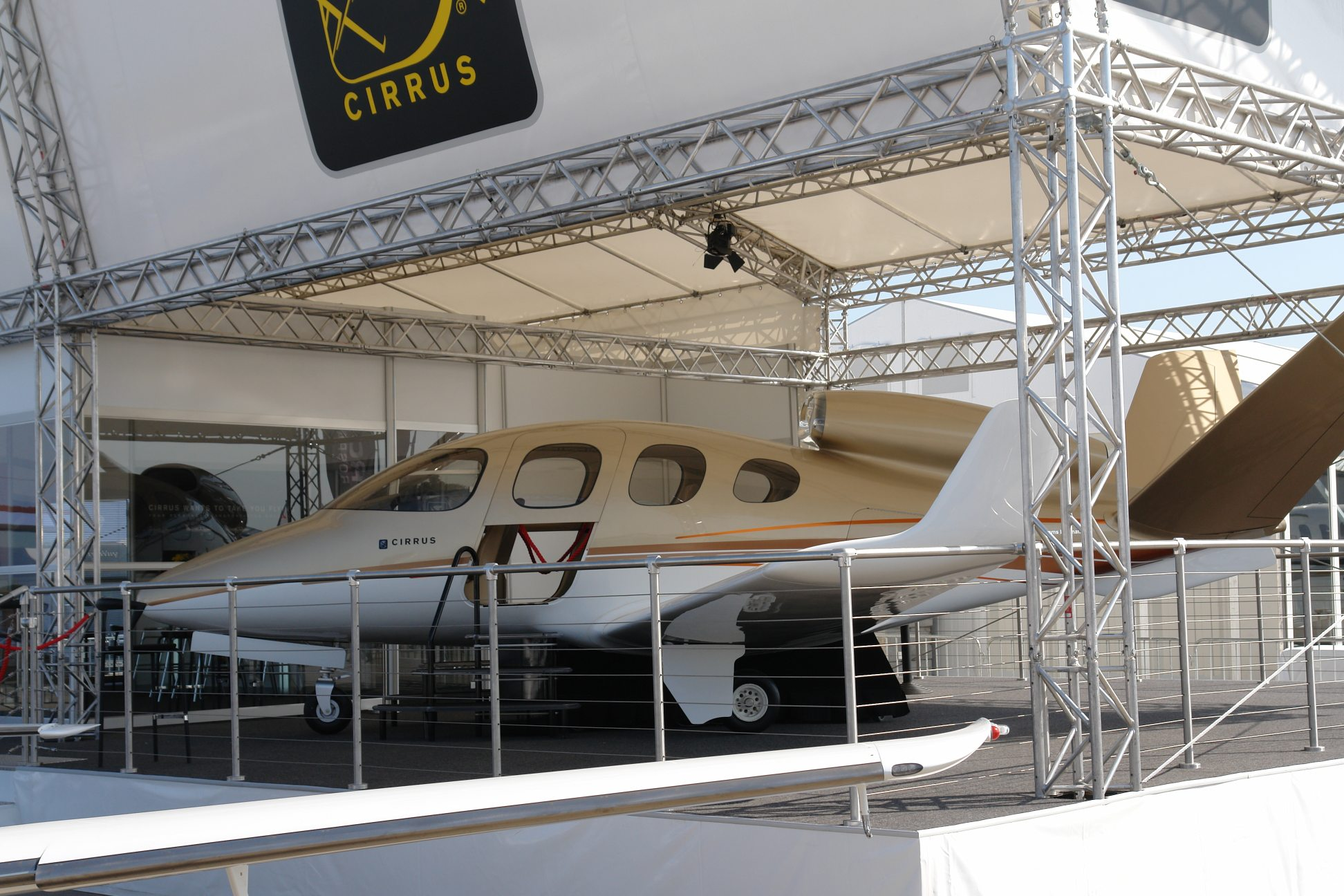 Cirrus Vision SJ50